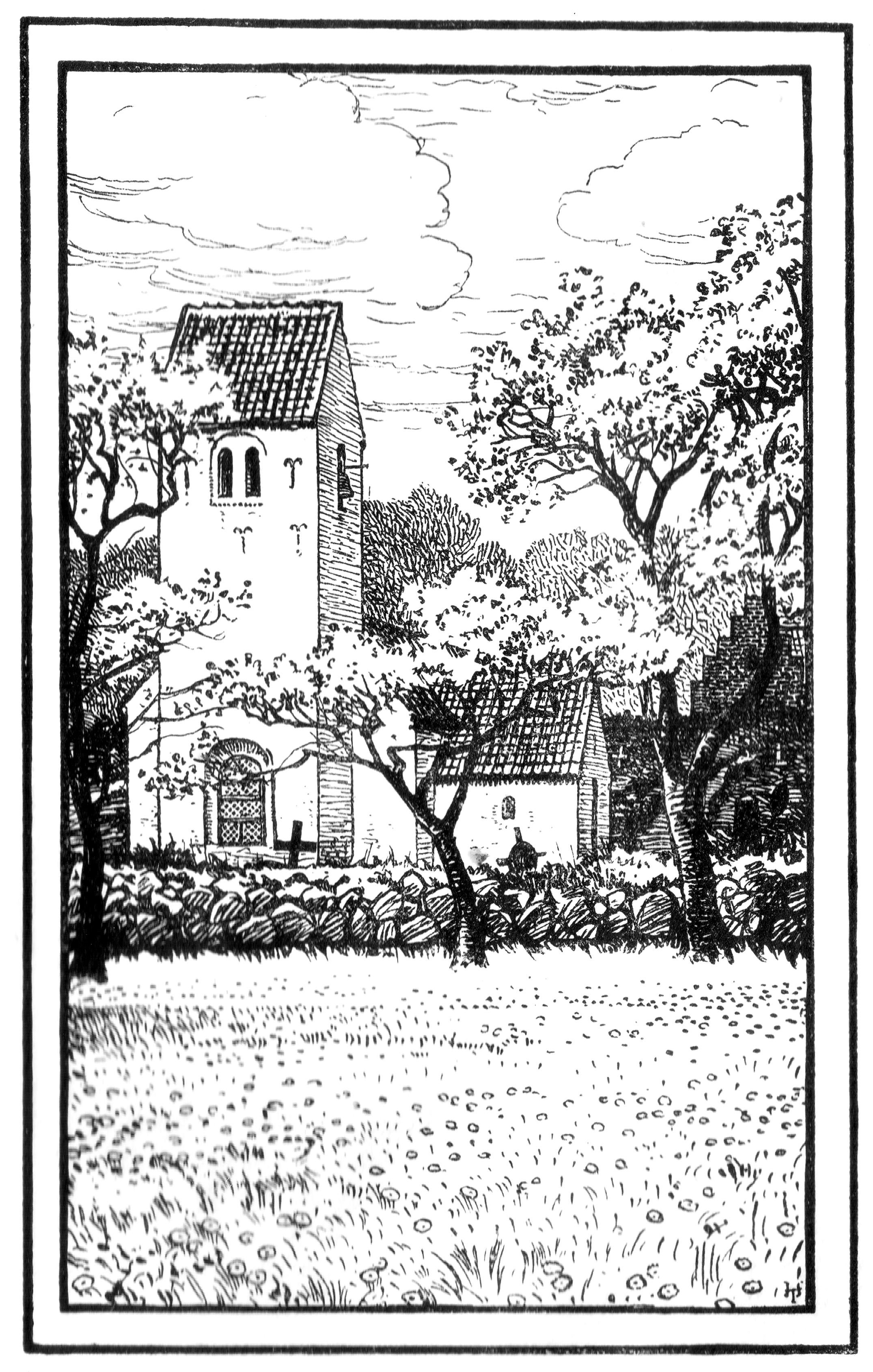 This is a scanned image (300 dpi colorscale png) of a page from an old book, Brudstykker af en Landsbydegns Dagbog (Pieces of a diary by a priest), 41 pages, Kjøbenhavn 1905, by St. St. Blicher (1782 - 1848). The pages are scanned by User:Bisgaard in november 2007. This work is in the public domain because of its age: The author died more than 70 years ago. Scanned images are named image:Brudstykker_af_en_Landsbydegns_Dagbog_1905_01.png counting upwards to 41.